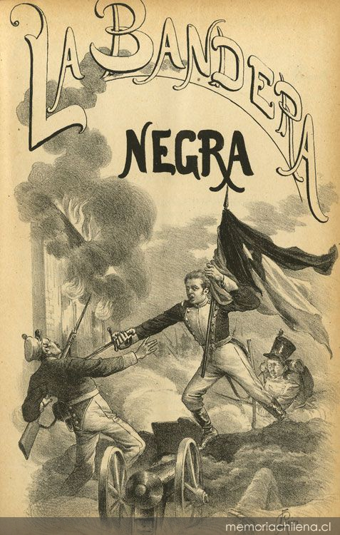 Faithful photographic reproduction of a two-dimensional, public domain work of art: The 1st page of the novel "La bandera negra" by Luis Fernando Rojas who died in 1942